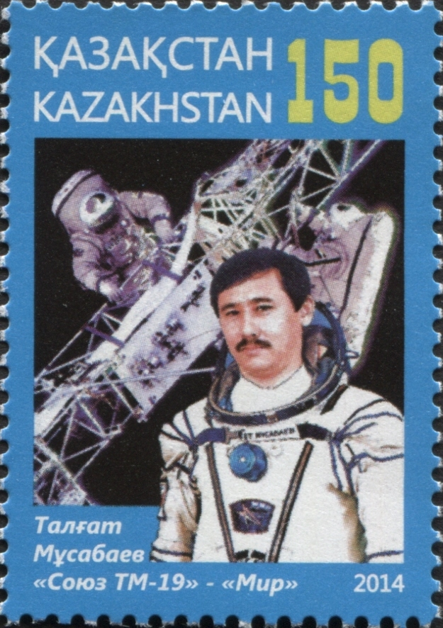 Space - 20th Anniversary of Talgat Musabayev's first Spaceflight